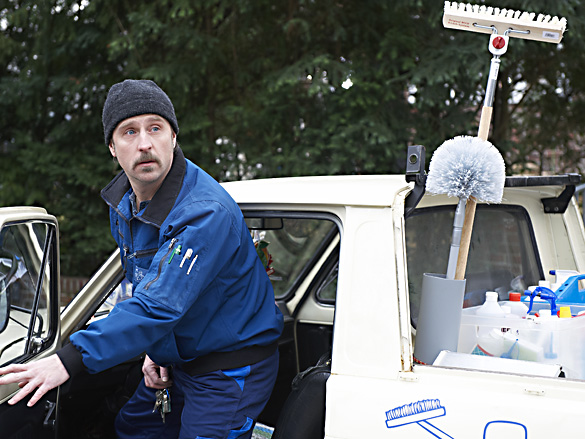 Der Tatortreiniger with Bjarne Mädel